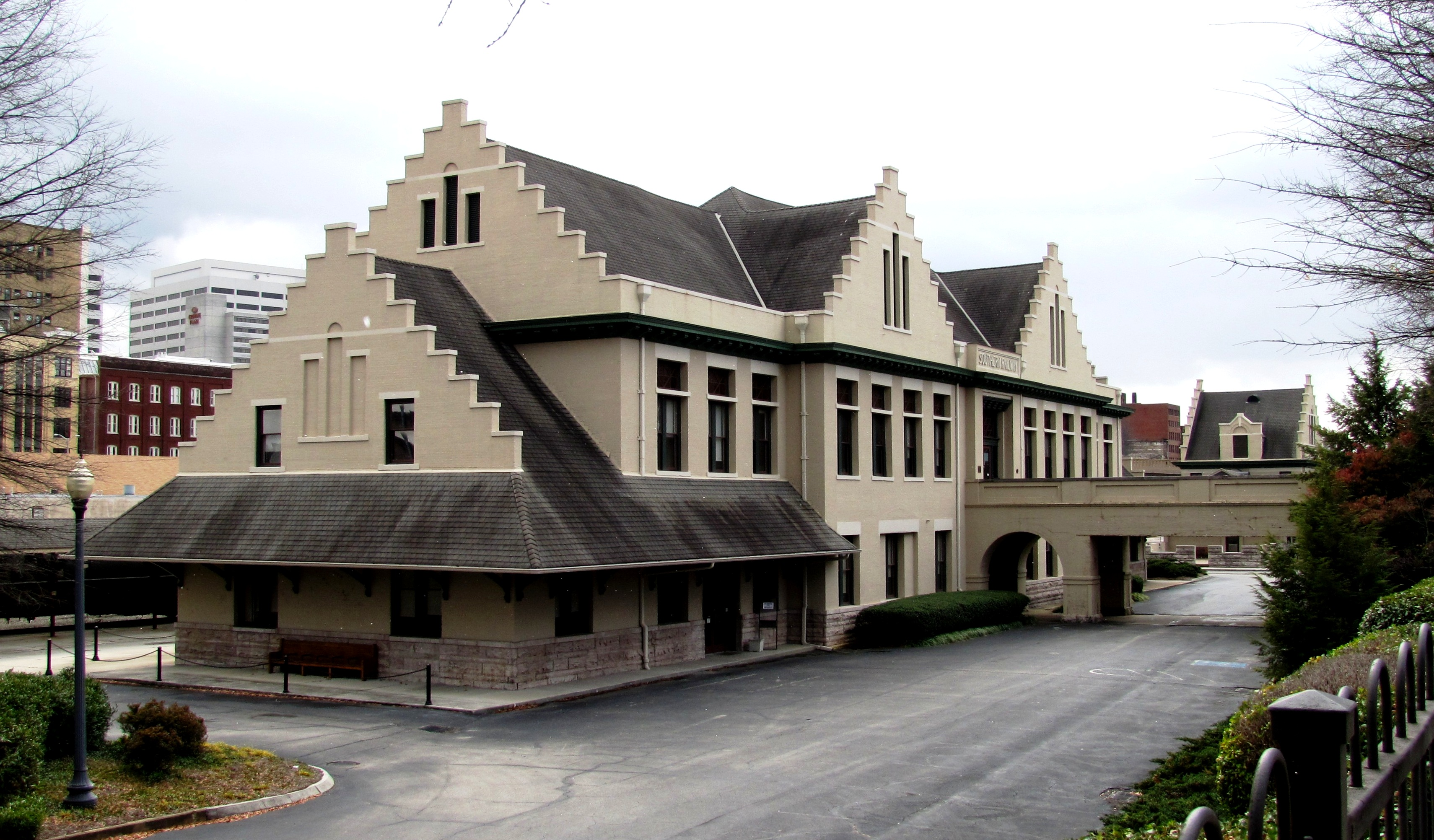 The Southern Railway Terminal in Knoxville, Tennessee, USA, viewed from the northeast, along Depot Avenue. Built in 1904, this terminal is now a contributing property within the NRHP-listed Southern Terminal and Warehouse Historic District.